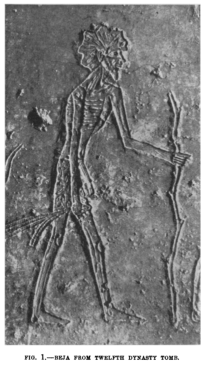 Beja figure on Twelfth Dynasty ancient Egyptian tomb, from C. G. Seligman's Some Aspects of the Hamitic Problem in the Anglo-Egyptian Sudan (1913).